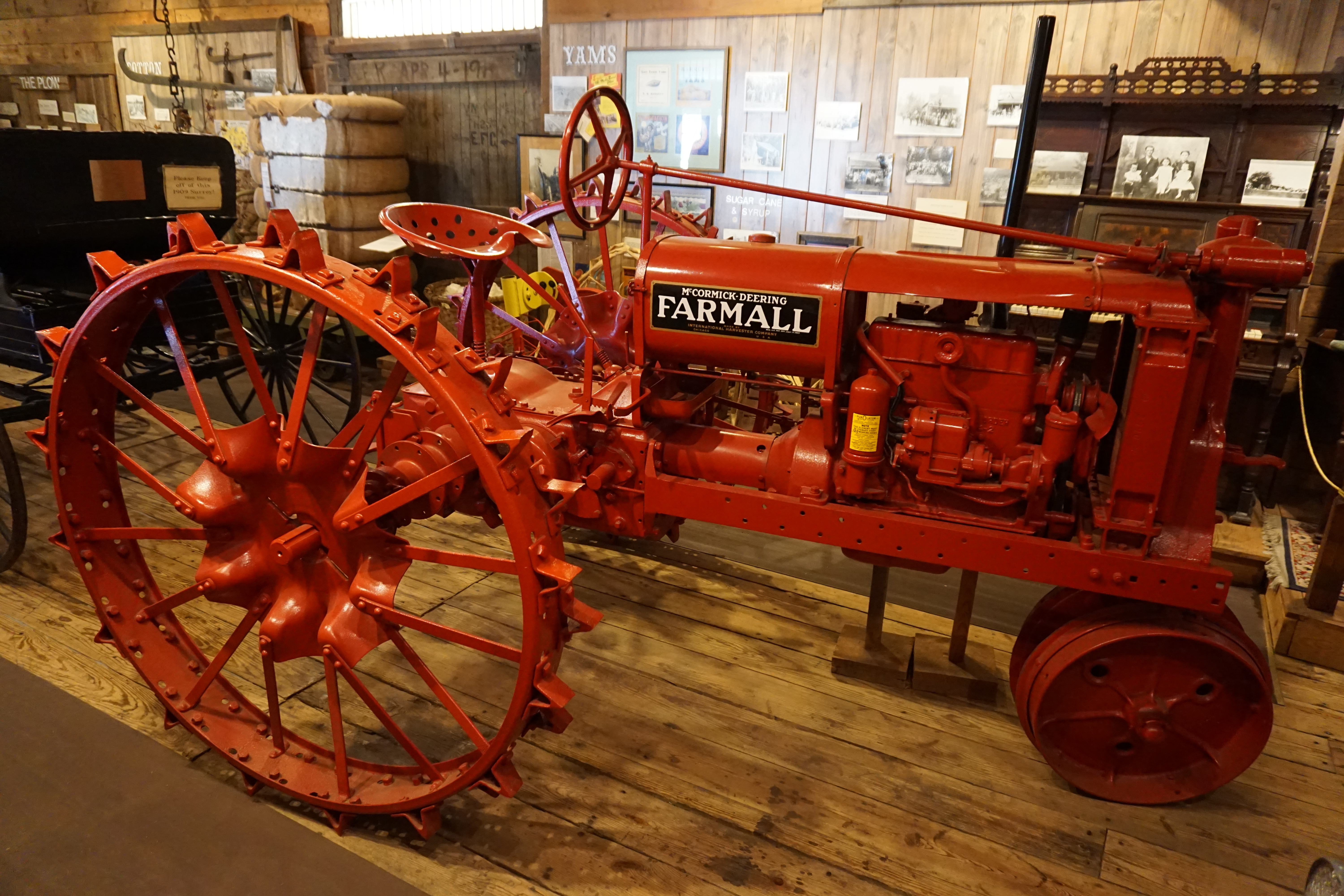 A 1930s McCormick-Deering Farmall (F-14) tractor on display at the Northeast Texas Rural Heritage Center and Museum in Pittsburg, Texas (United States).